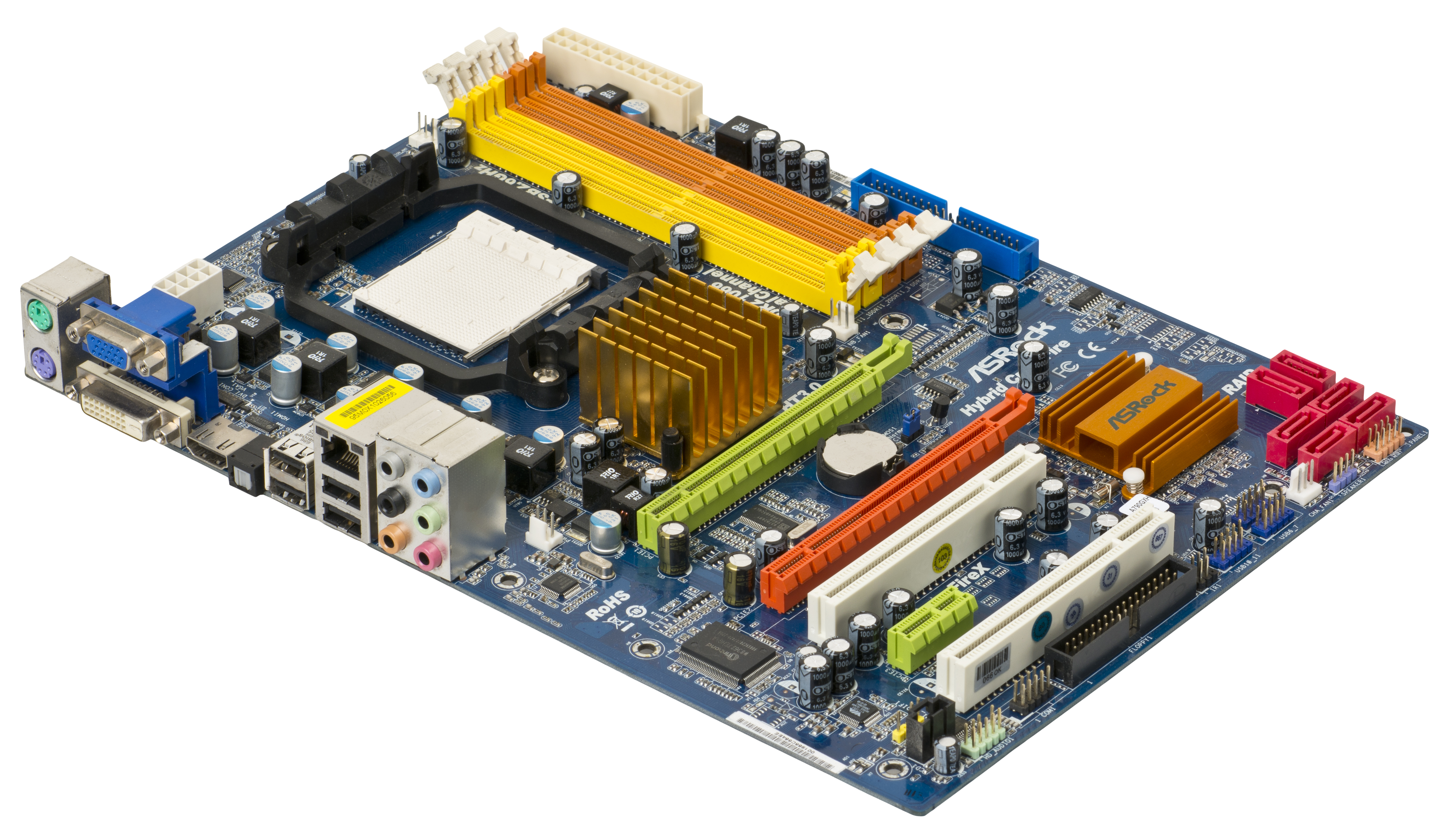 A A70GXH-128M motherboard, made by ASRock. This motherboard supports AMD AM2+/AM2 socket processors and includes AMD Radeon HD 3300 integrated graphics. It contains a variety of inputs such as SATA, PATA, PCI Express 2.0 x16, PCI Express 2.0 x1 and PCI slots.